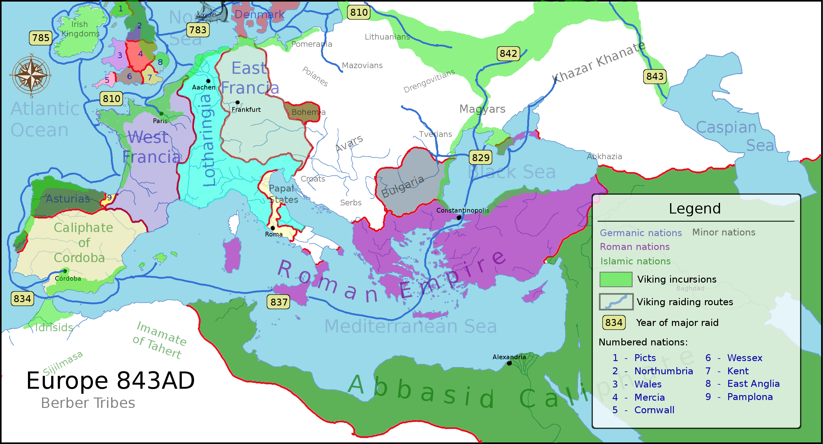 A political map of Europe featuring areas of major Viking incursions and the dates of famous Vikings raids.